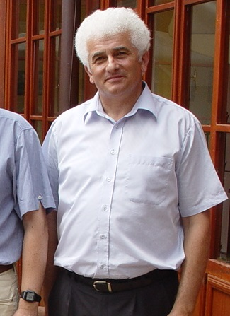 László Göncz, Hungarian politician and historian from Prekmurje in Lendava (2007)